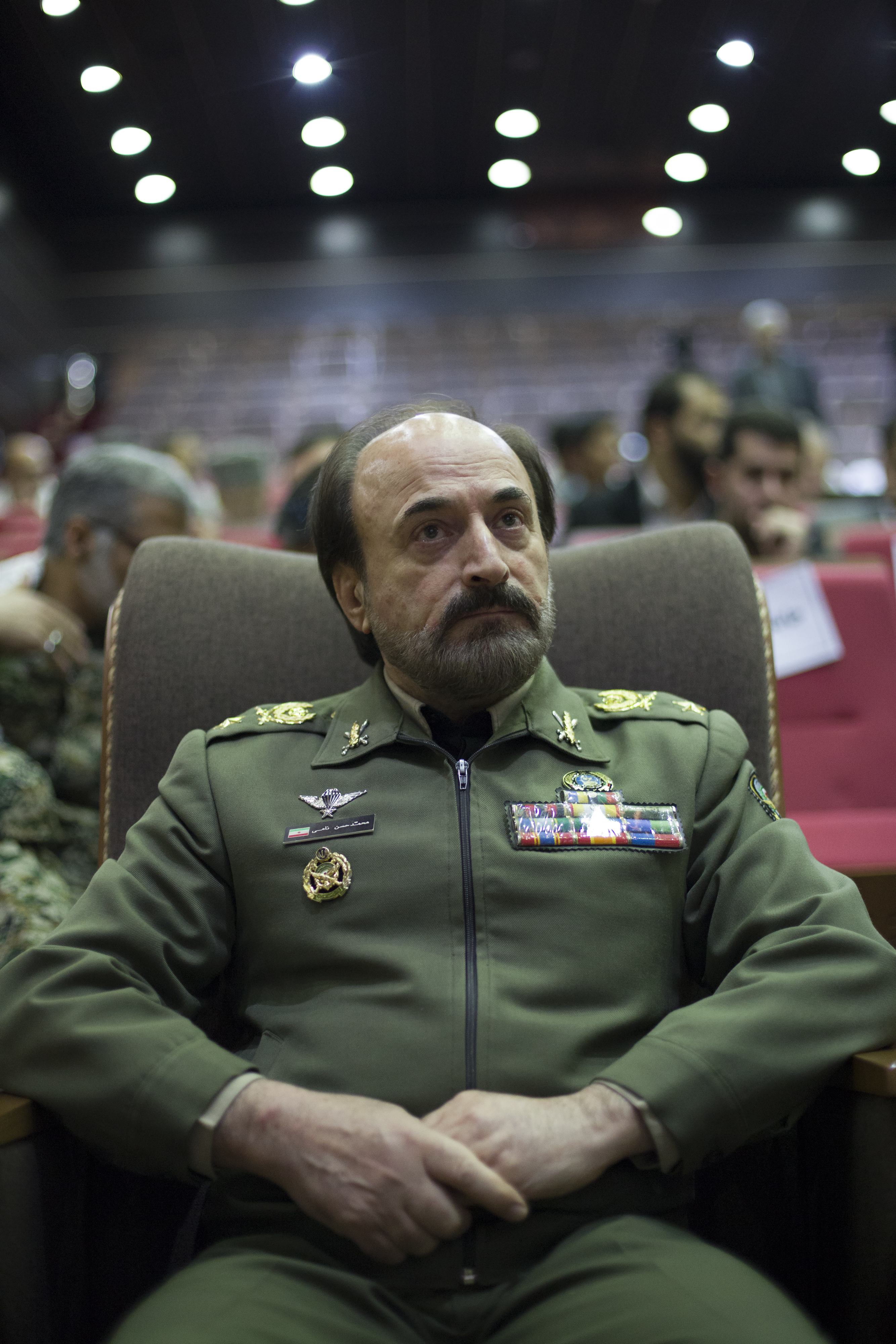 سرتیپ محمدحسن نامی (زاده ۱۳۳۲ - بیجگان) او در ابتدا به عنوان نیروی نظامی و با رسته پیاده به نیروی زمینی ارتش ملحق گردید و در طول جنگ ۸ ساله در عملیات‌های متعددی حضور داشته است و بیش از ۱۰۰ ماه در مناطق جنگی و نظامی سابقه فعالیت دارد او پس از پایان جنگ به عنوان نماینده ارتش به کشور کره اعزام گردید و بعد از آن به سمت معاونت اطلاعات ستاد مشترک ارتش جمهوری اسلامی برگزیده شد در سال ۱۳۸۴ و در زمان تصدی مصطفی محمد نجار در وزارت دفاع، او به سمت ریاست سازمان جغرافیایی منصوب گردیدند و تا سال ۱۳۹۱ این سمت را در اختیار داشت.